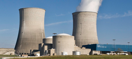 Watts Bar Nuclear Plant, Tennessee. Includes cooling towers and containment buildings.